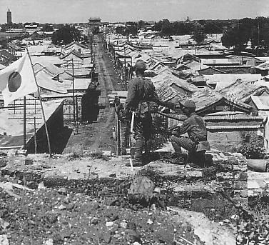 Occupied Tongzhou by Imperial Japanese Army